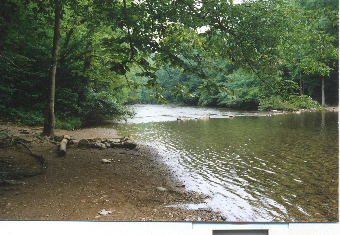 Little River near the Townsend entrance to Great Smoky Mountains National Park.